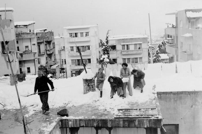 snow in Haifa, Israel. 1950